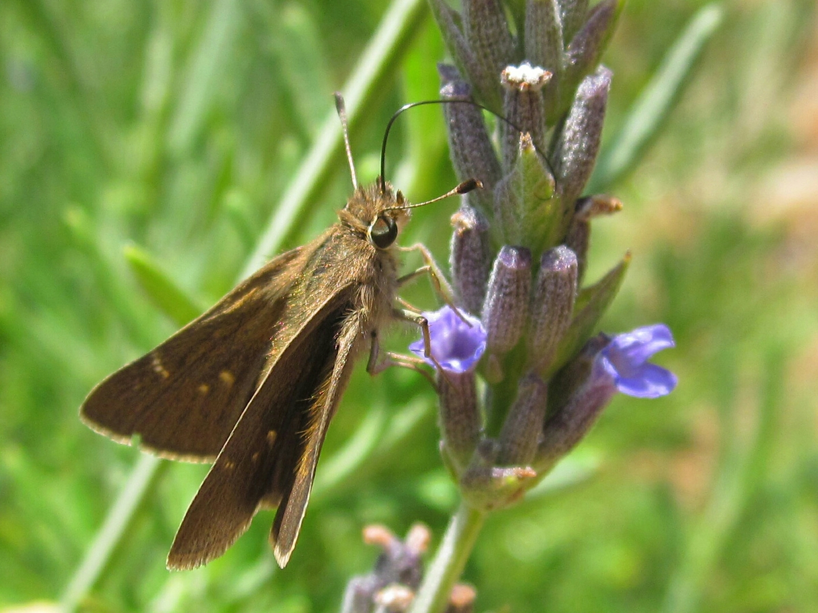 Lerodea eufala concepcionis. Subspecies of insect.